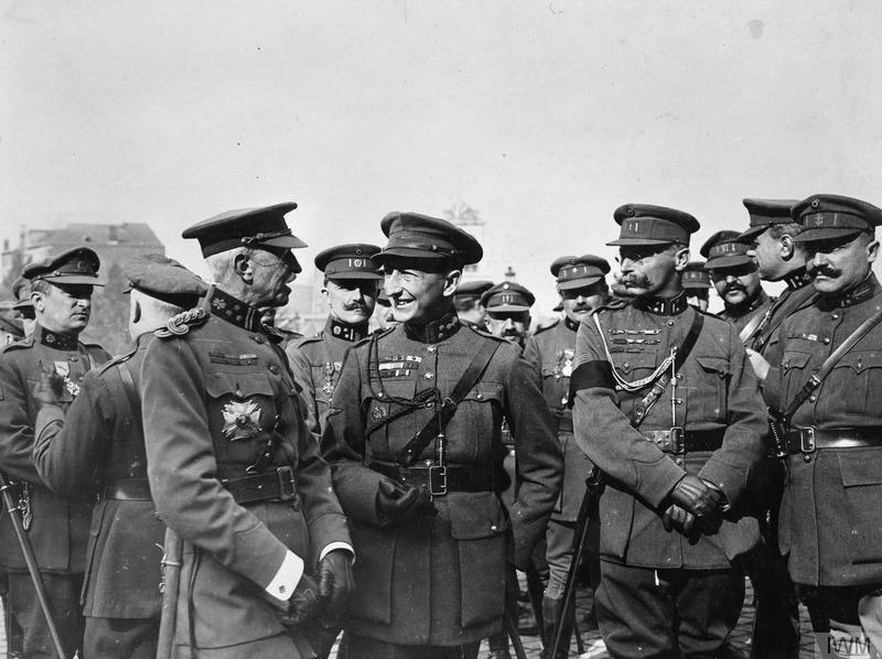 Belgian First World War Official Exchange Collection The Earl of Athlone decorates Belgian Officers in the Place Poellaert in Brussels, 3 October 1919 (in the centre of the photo is Belgian Air Ace Willy Coppens)